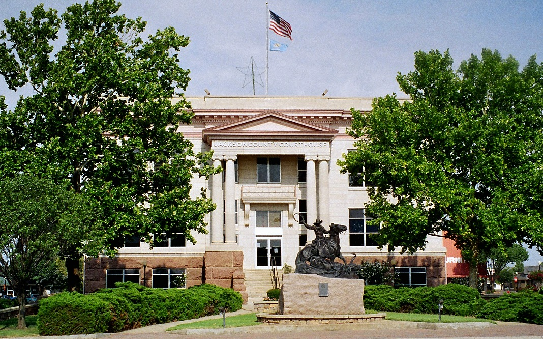 The Jackson County Courthouse located in Altus, Oklahoma, United States. Built in 1910, it is listed on the National Register of Historic Places(#84003064).